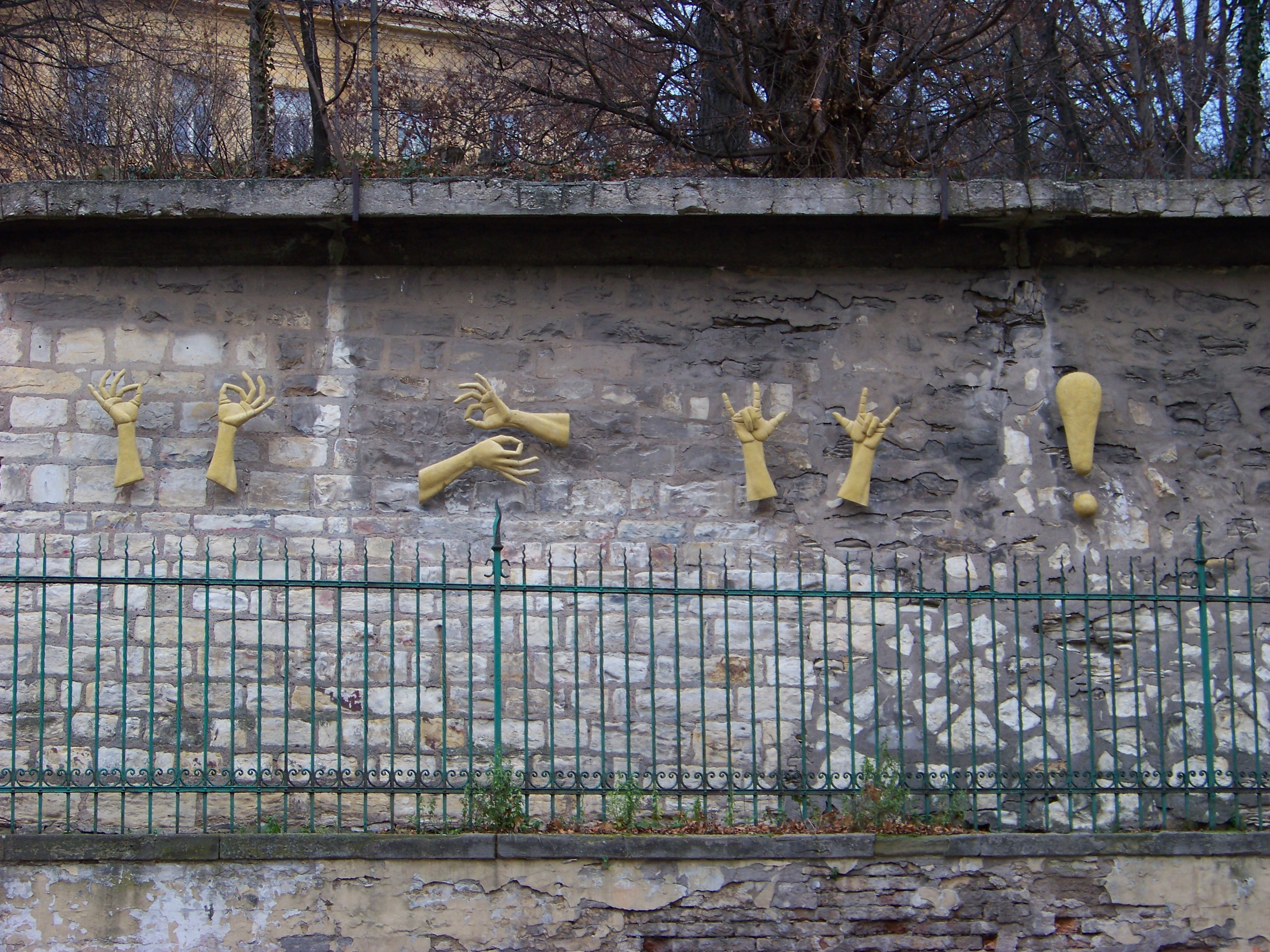 Prague-Smíchov, the Czech Republic. Sign language scuplture "Life is beautiful, be happy and love each other!" by Zuzana Čížková at Kobrova Bus Stop in Holečkova Street in Prague near school for hearing impaired people. - OpenStreetMap(Info)